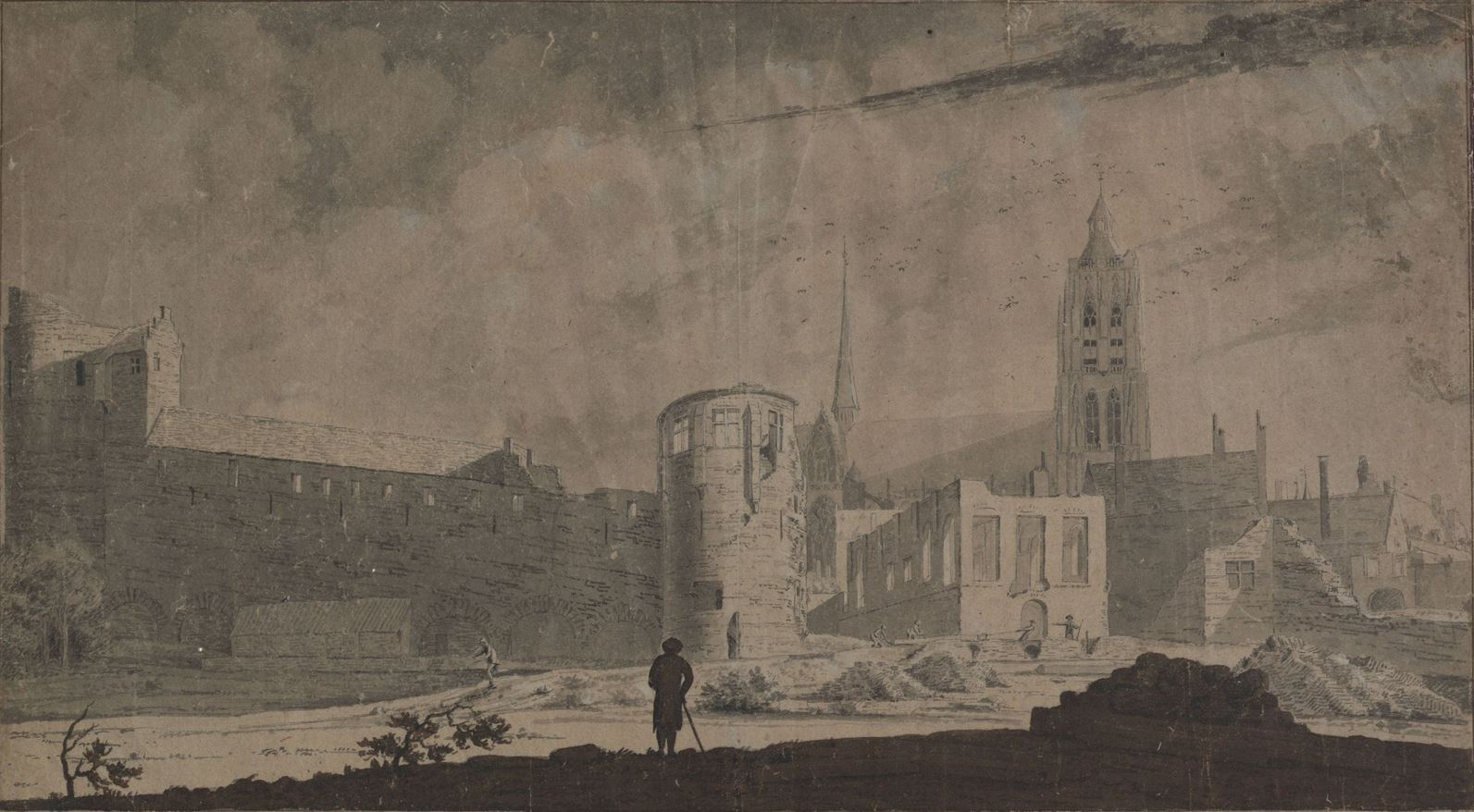 Vue d'une partie des vieux remparts de Bruxelles et de la démolition du couvents des ... anglaises